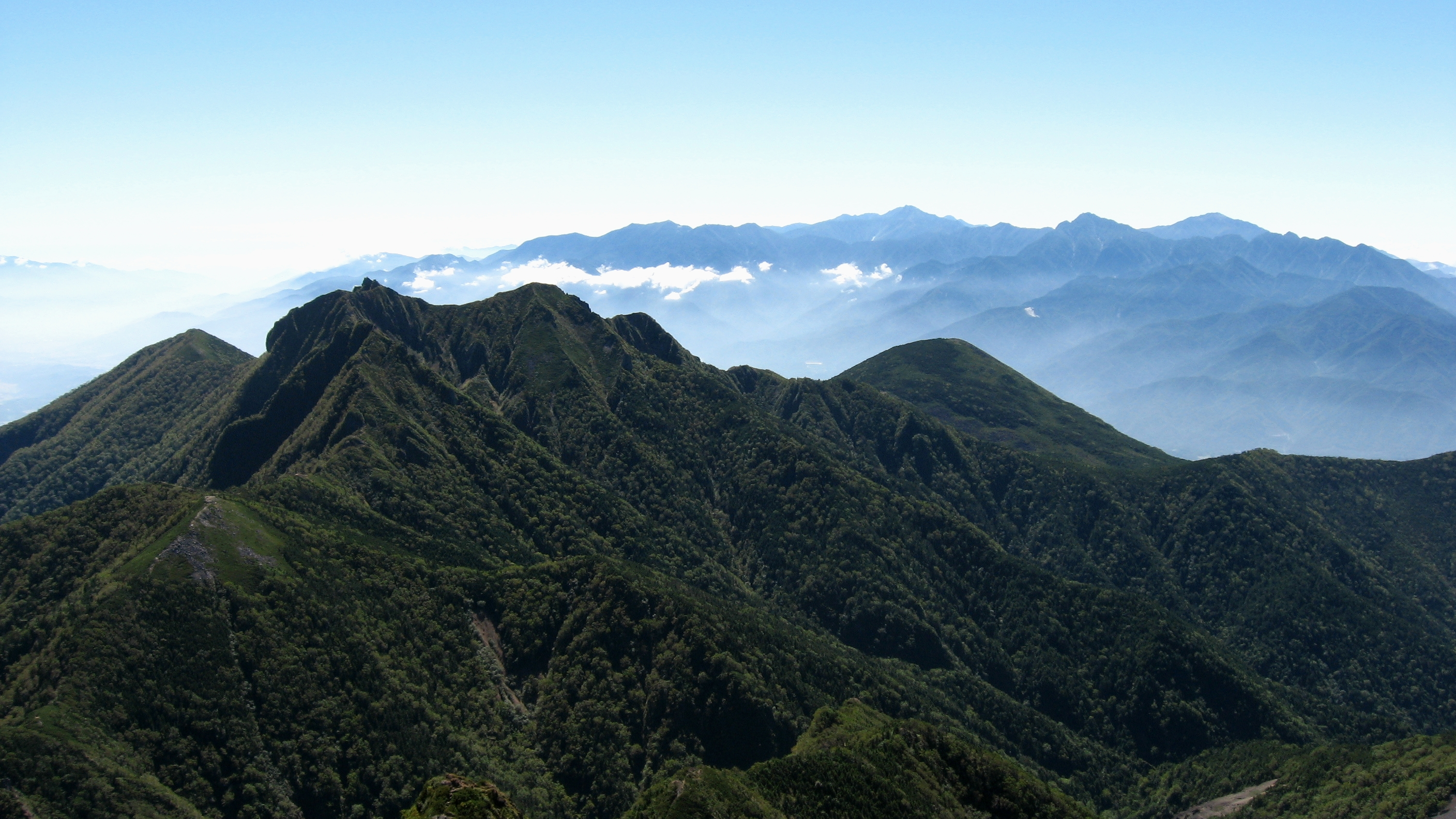 Mt.Gongendake (left) and Mt.Amigasa (right) as seen from Mt.Amidadake, Mts.Yatugatake, Honshu, Japan.